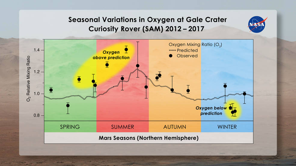 Graph showing oxygen levels in Gale crater, as measured with Curiosity